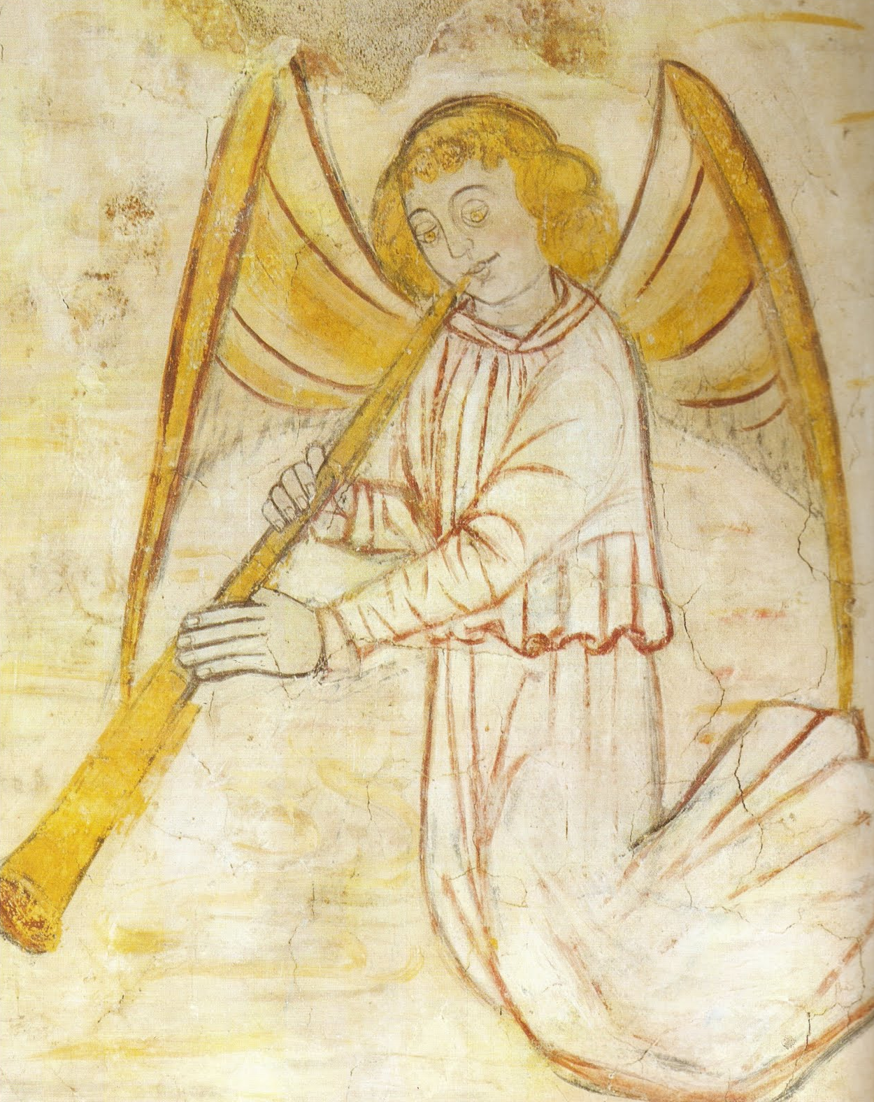 Detail of an angel in the Allegory of the Good and Bad Judge, 15th-century fresco in the old Town Hall and Courthouse building in Reguengos de Monsaraz, Portugal.